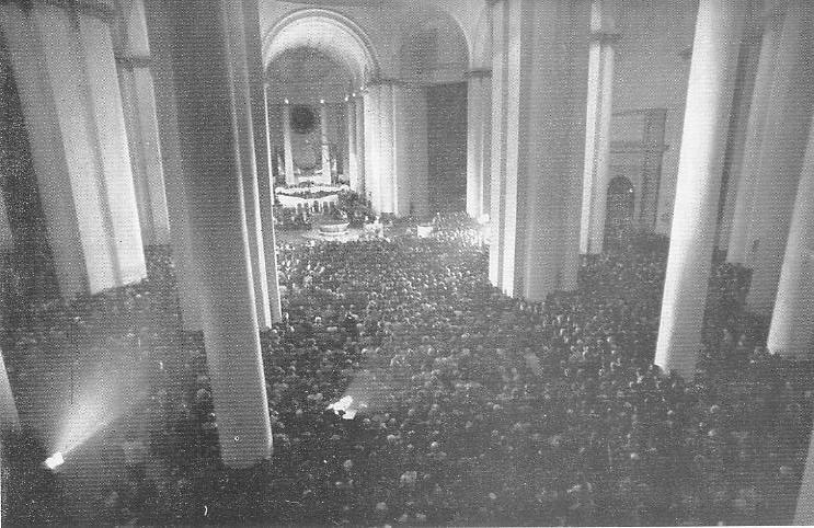 Billy Graham preaches in Katedra pw. Chrystusa Króla in Katowice